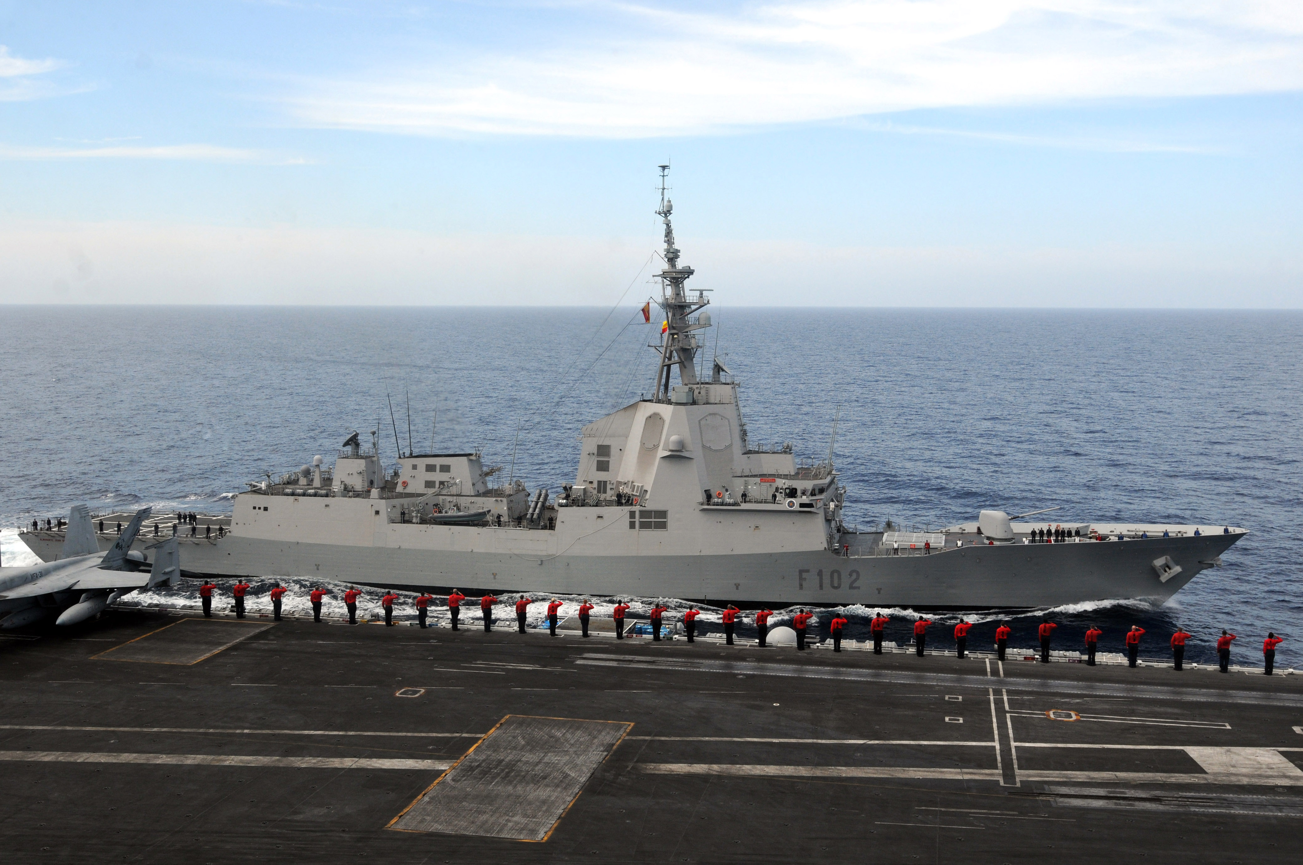 MEDITERRANEAN SEA (June 8, 2011) Sailors aboard the aircraft carrier USS George H.W. Bush (CVN 77) salute the Spanish navy frigate ESPS Almirante Juan De Borbon (F 102). George H.W. Bush is supporting maritime security operations and theater security cooperation efforts in the U.S. 6th Fleet area of responsibility. (U.S. Navy photo by Mass Communication Specialist 3rd Class Billy Ho/Released)